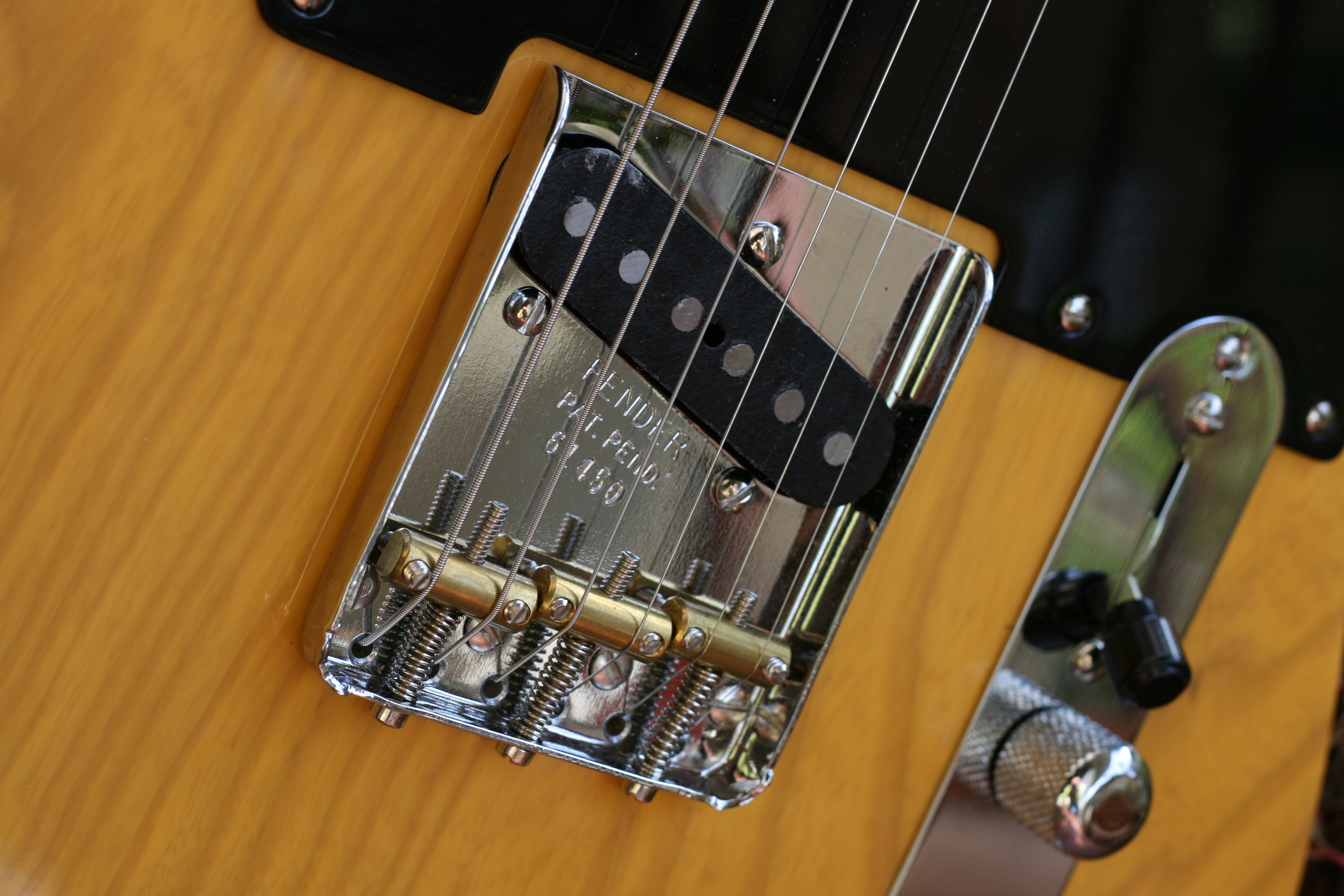 Fender Telecaster American Vintage 1952 pickup detail. Look at the same guitar two years after